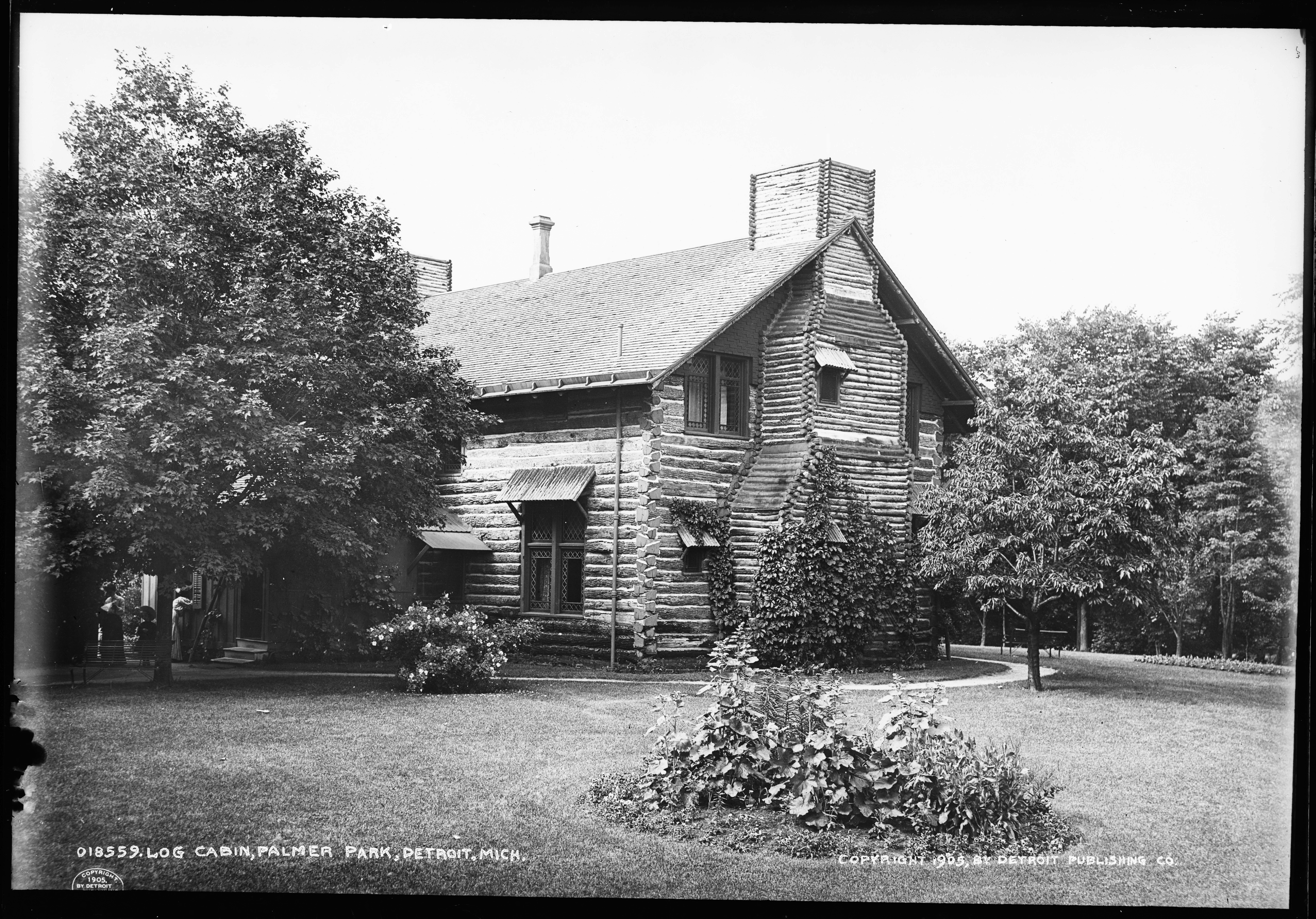 Log cabin, Palmer Park, Detroit, Mich. c1905